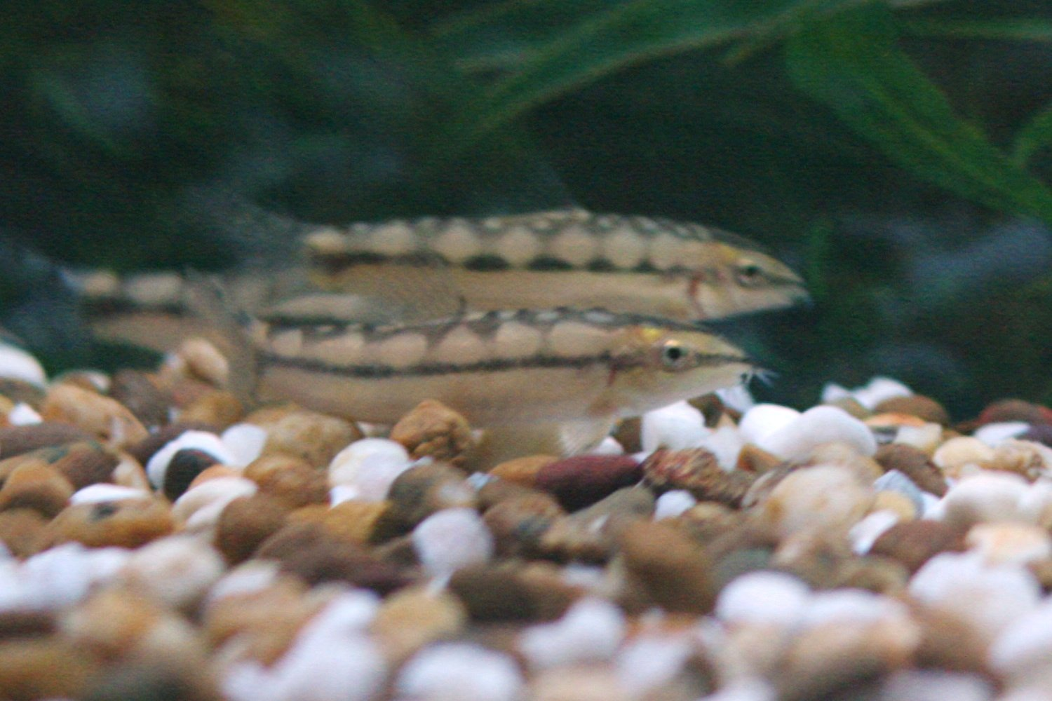 Dwarf loach Ambastaia sidthimunki. Size about 4cm SL.